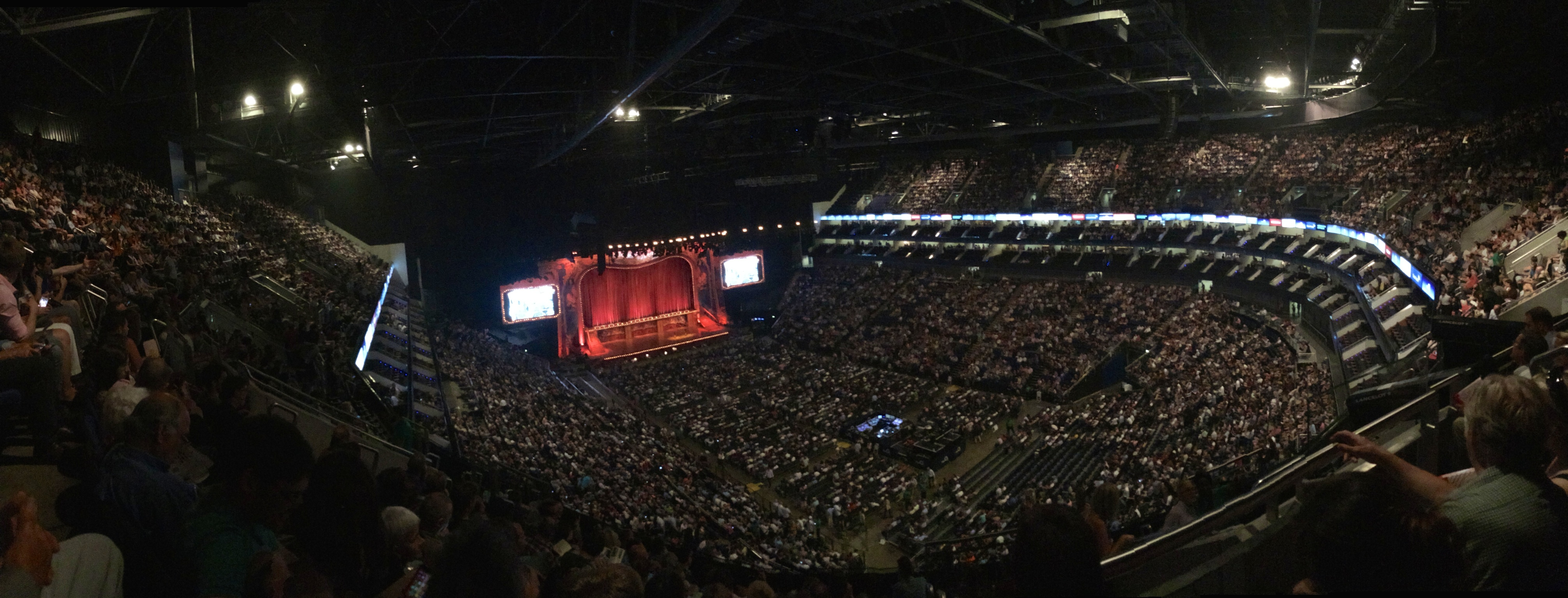 View from rear of the O2 for the Monty Python show on July 16. This was taken about 5-10 minutes before curtain up